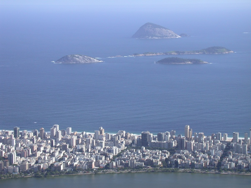 View of Lagoa and Ipanema from Corcovado